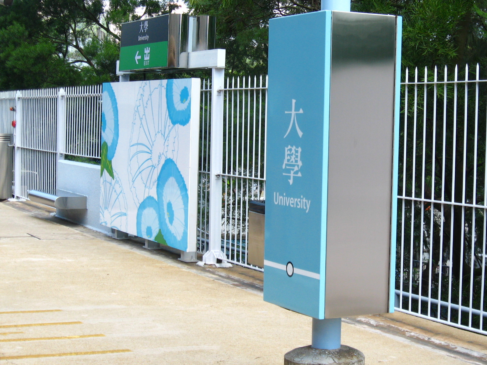 University MTR Station, Hong Kong 中文（香港）: 香港港鐵大學站